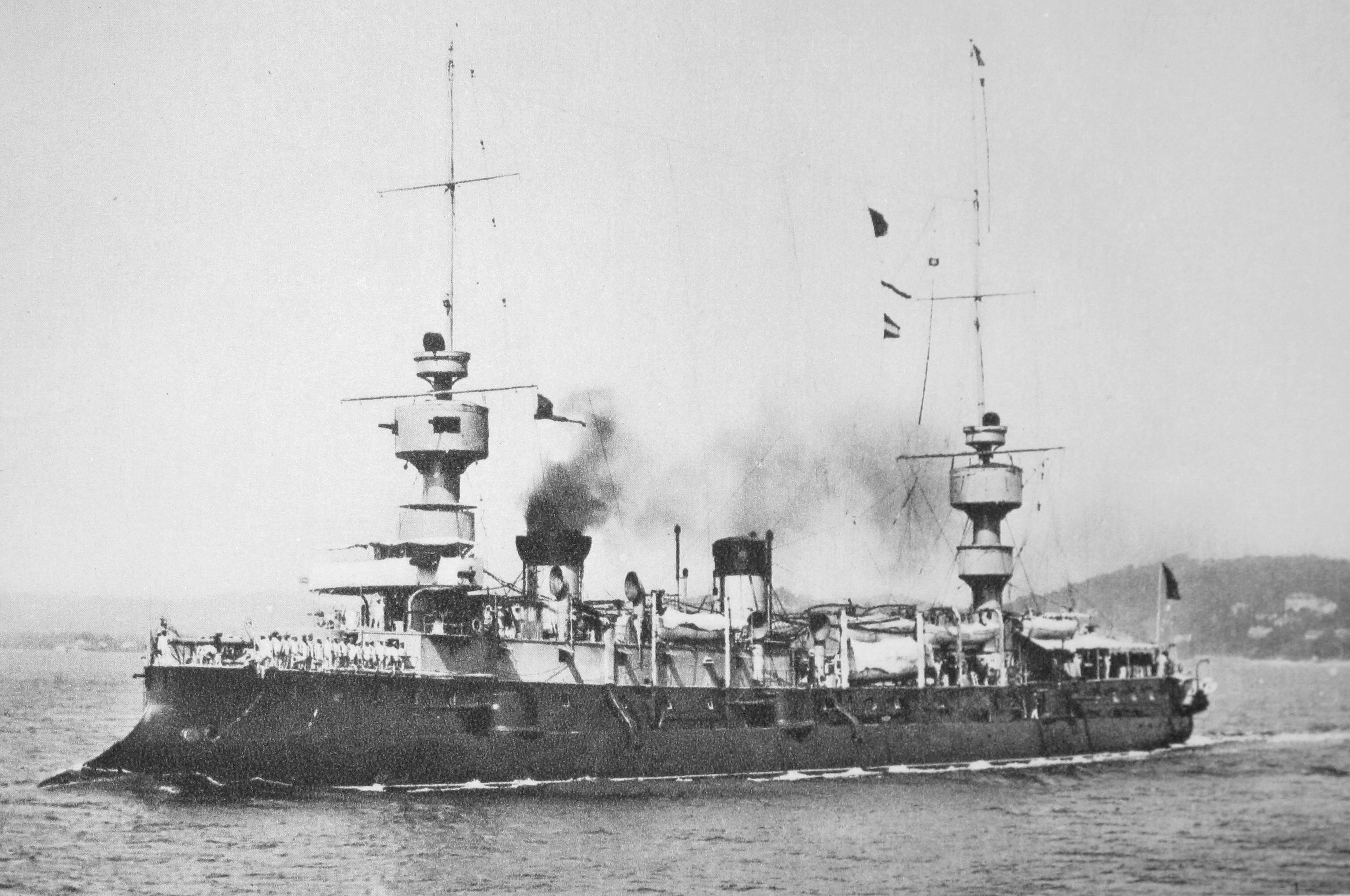 French armoured cruiser Bruix